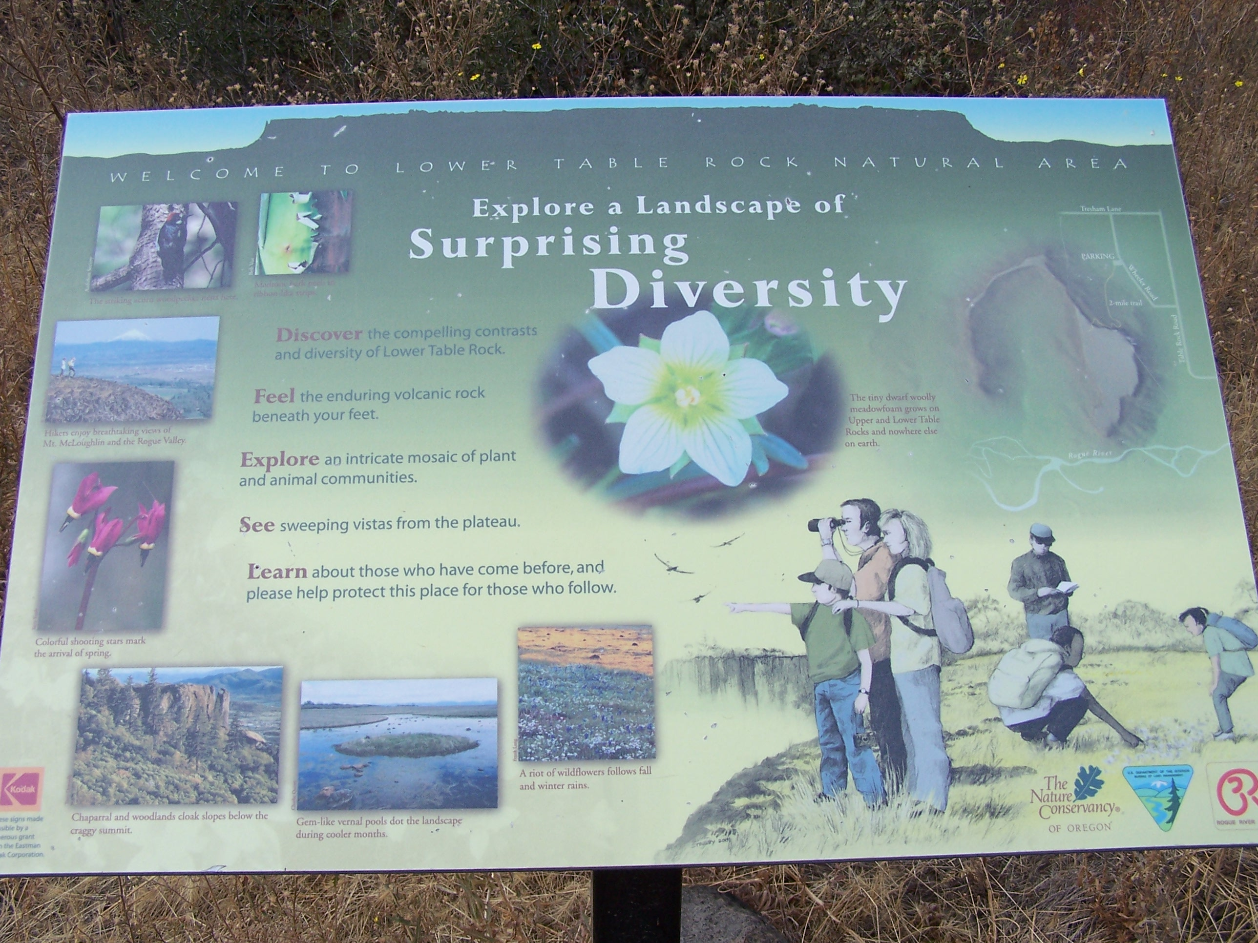 The first interpretive sign on the Lower Table Rock Trail.